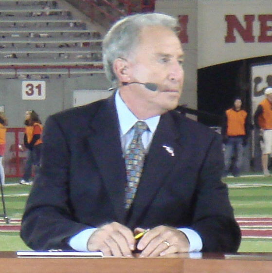 ESPN College GameDay's Lee Corso in Lincoln, Nebraska: home of the Nebraska Cornhuskers football team.